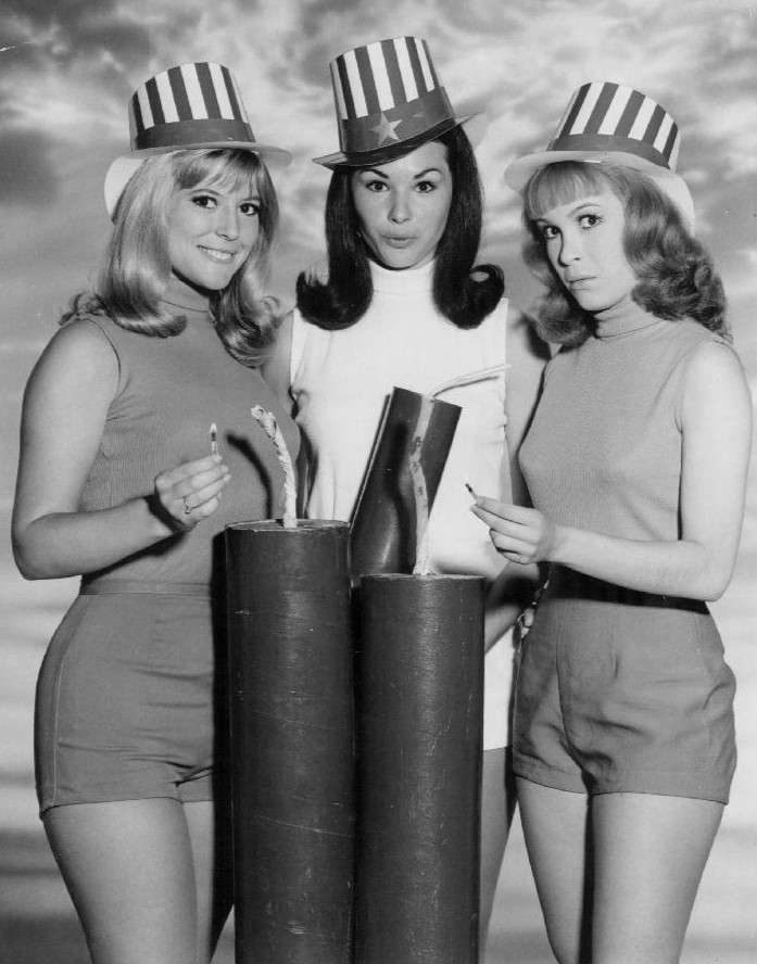 Photo of the three Bradley sisters from the television program Petticoat Junction in an Independence Day publicity photo. From left: Meredith MacRae (Billie Jo), Lori Saunders (Bobbie Jo), Linda Kaye Henning (Betty Jo).